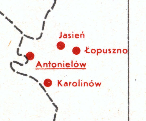 German settlements in 1938 around Antonielów